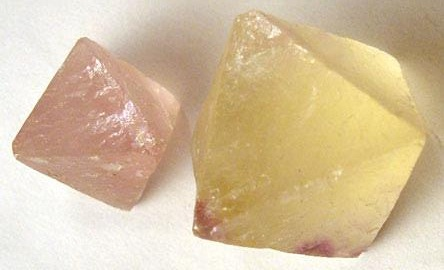 Octahedral fluorite crystals. Copyright Ryan Salsbury 2004. Image created January 17, 2004.